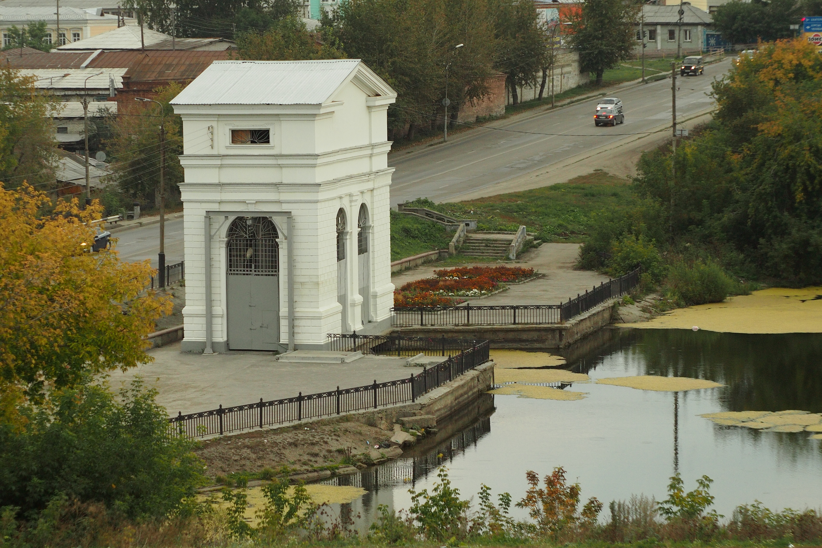 Dam on the Kamenka river in Kamensk-Uralsky, Sverdlovsk oblast, Russia